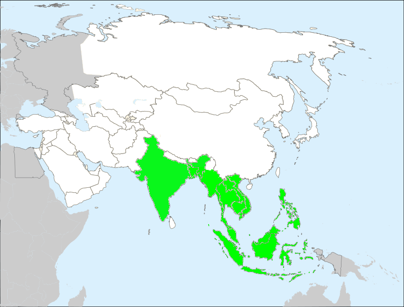 Area of Python reticulatus, based on: M. Auliya & F. Abel: Zur Taxonmomie, geographischen Verbreitung und Nahrungsökologie des Netzpythons (Python reticulatus) (Taxonomy, area and feeding ecology of the reticulated python (Python reticulatus); german) Teil 1. herpetofauna 22; 2000: S. 5-18.